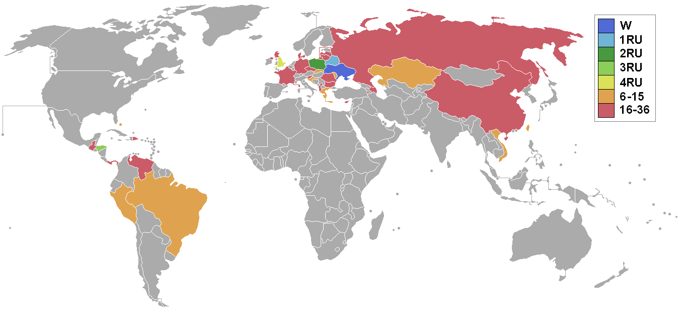 Miss Supranational 2009 results